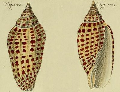 Scaphella junonia (Lamarck, 1804), Volutidae, Gastropoda, from Chemnitz (1795; pl. 177, figs. 1703-1704)